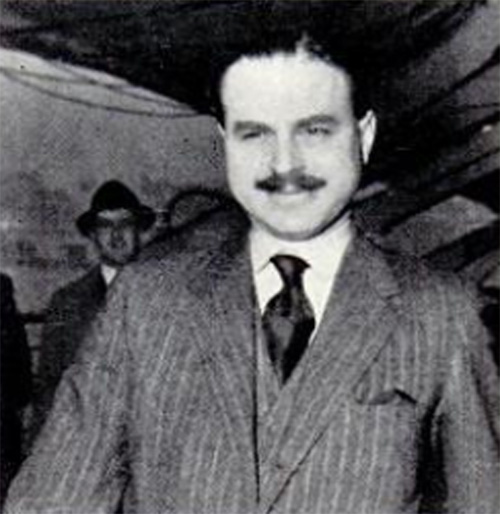 Ernest Simpson, former husband of Wallis, the Duchess of Windsor in 1937